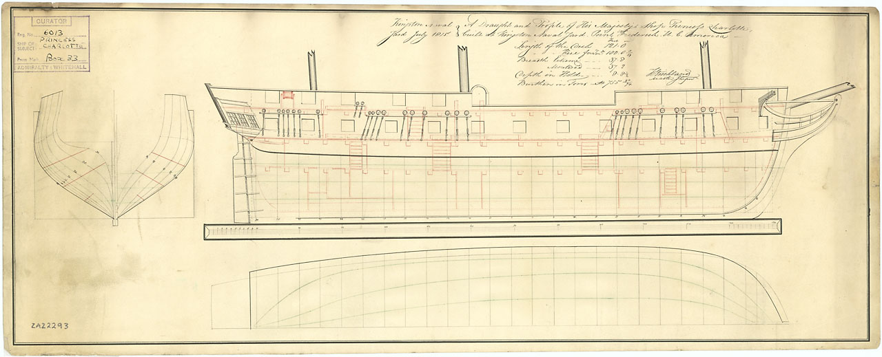 Princess Charlotte (1814) Scale: 1:96. Plan showing the body plan, sheer lines with inboard detail, and longitudinal half-breadth for Princess Charlotte (1814), a 42-gun Fifth Rate Frigate, as built at Kingston Naval Yard for use on the Lakes. Signed by Thomas Strickland [Master Shipwright, Kingston Naval Yard, Point Frederick, Upper Canada, Lake Ontario, 1812-1815] PRINCESS CHARLOTTE 1814